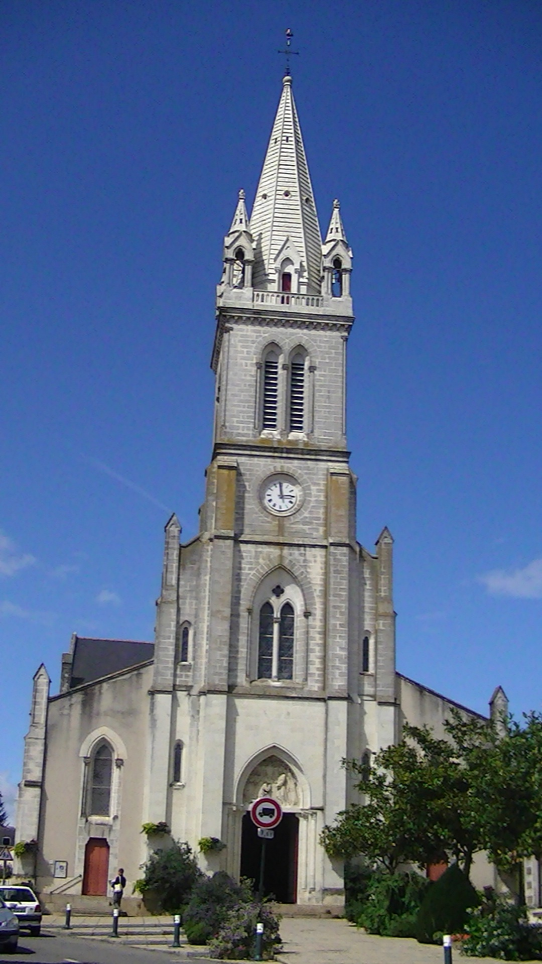 Church in Oudon, France